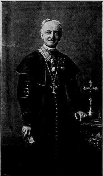 The educator István Majer